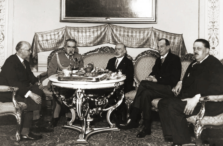 Józef Piłsudski, Louis Barthou,Józef Beck, Jan Szembek, Jules Laroche. Official visit of French Minister of Foreign Affairs Louis Barthou in Warsaw April 1934